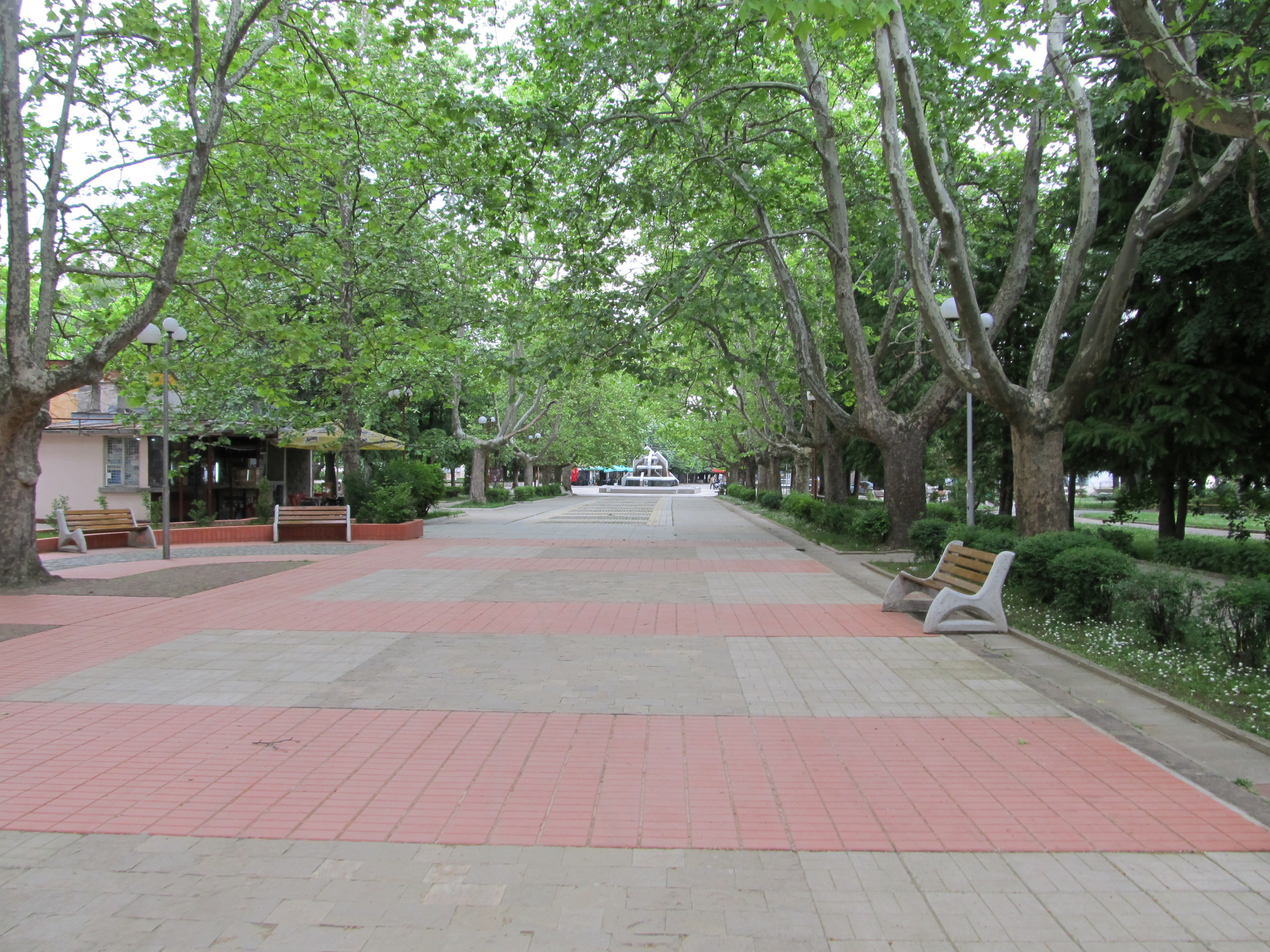 Sunny Garden